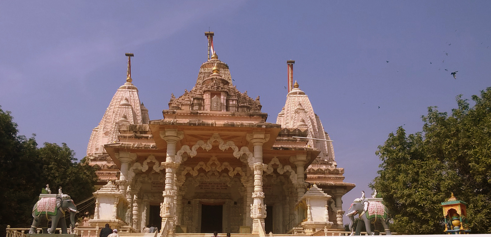 View of Hrinkar Teerth - Jain Temple near NH 5 in Andhra Pradesh,India